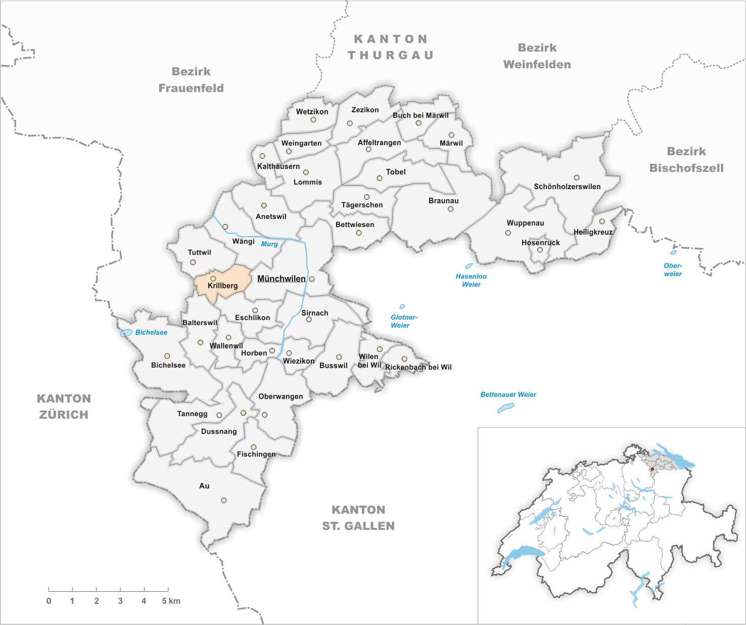 Municipality Krillberg